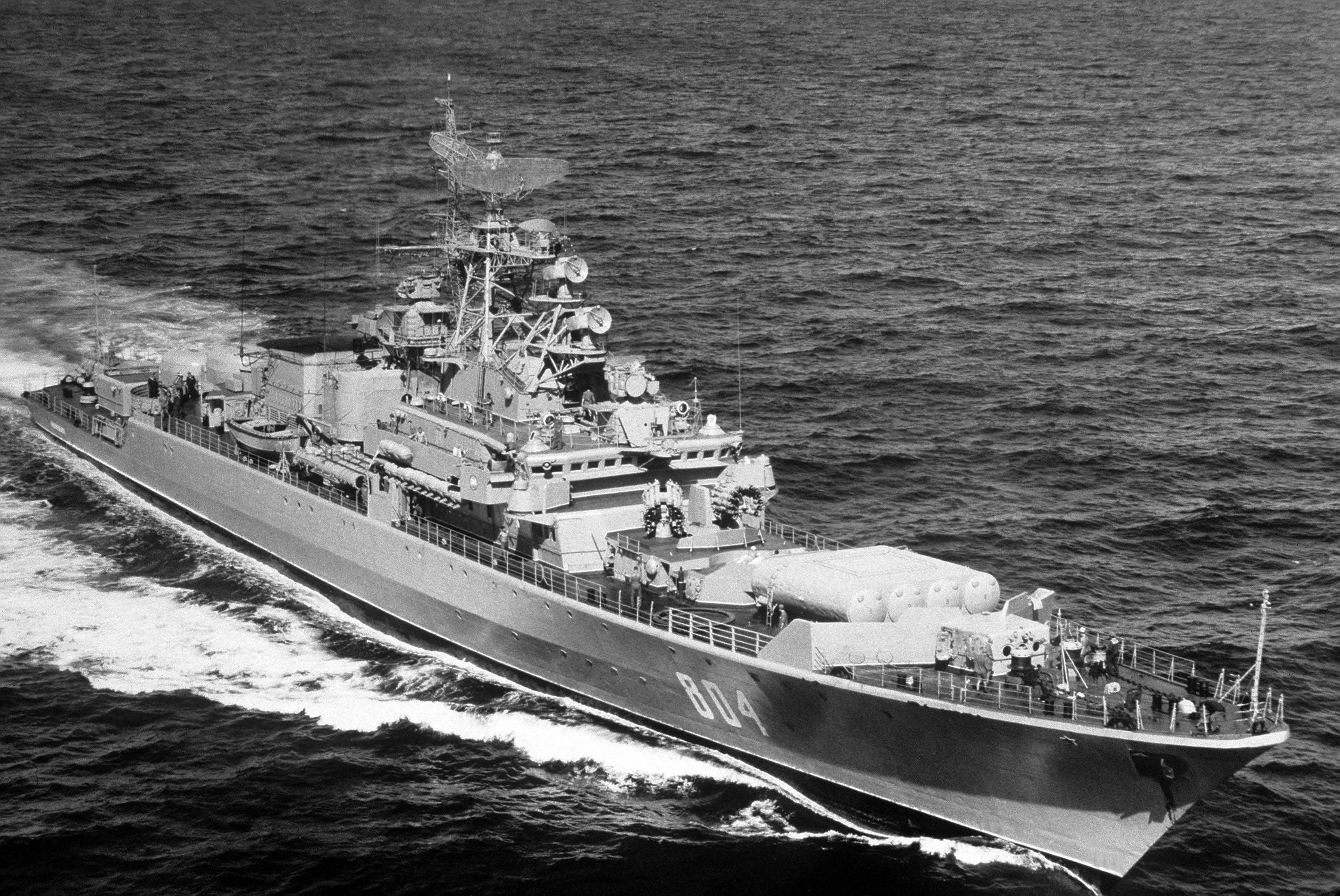 Soviet Navy SKR project 1135M Razitel'nyy (later Ukrainian Navy frigate Sevastopol') on the Mediterranean Sea.